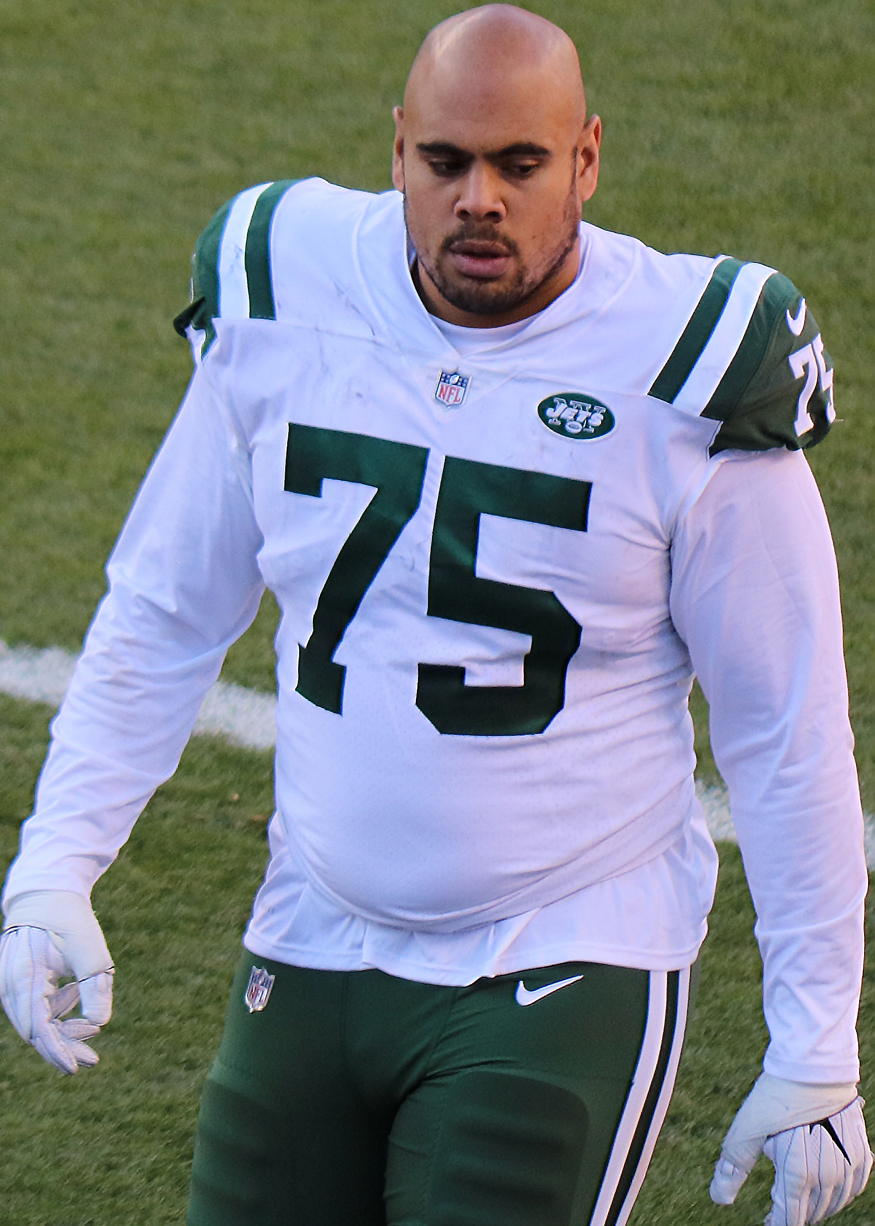 Xavier Cooper, a National Football League player.